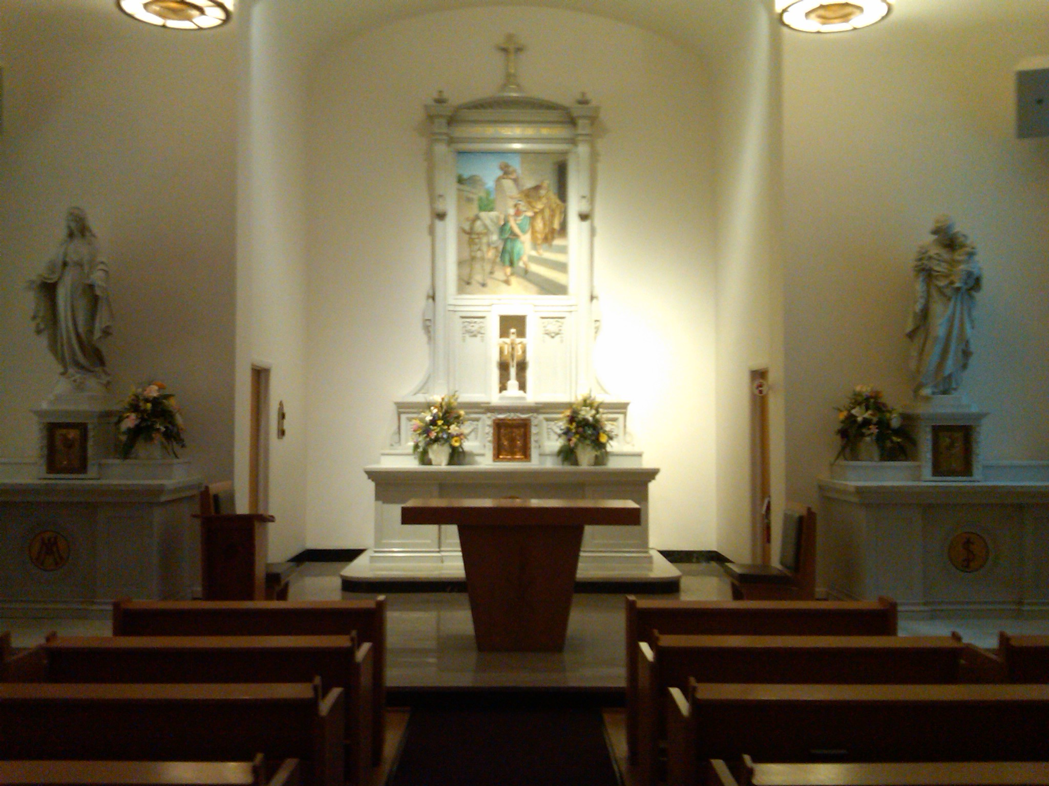 The image shows a Christian chapel in Summa St. Thomas Hospital of Akron, Ohio, USA. The chapel is regularly used by patients, hospital staff, visitors and their families for prayer. Masses and Worship Services are also held here.